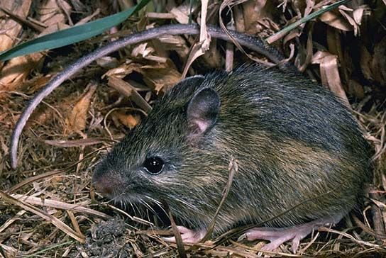 The Western Jumping Mouse (Zapus princeps), is a species of rodent in the Dipodidae family. It is found in Canada and the United States.